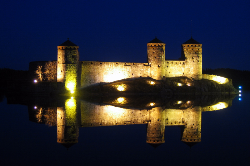 Olavinlinna Castle in Savonlinna, Finland, by night, seen from the north. Photo taken from the railroad bridge.